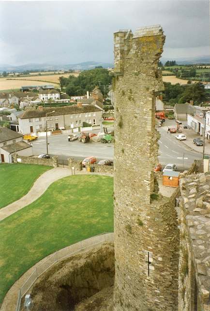 Tower of Ferns Castle, Co. Wexford Ferns is an ancient royal and episcopal city, formerly capital of the Kingdom of Leinster. The castle is Anglo-Norman, of the 12C or 13C. One of the round towers is relatively intact and has inside a 13C chapel. The tower in the picture, however, is in a somewhat perilous state.